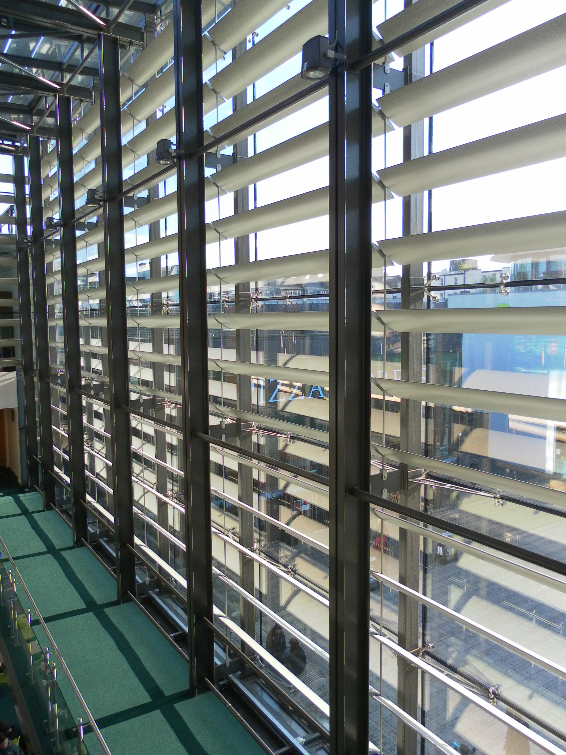 Louvre-style Screen inside Jubilee Library, Brighton, City of Brighton and Hove. A design feature of this modern library, opened in 2005.